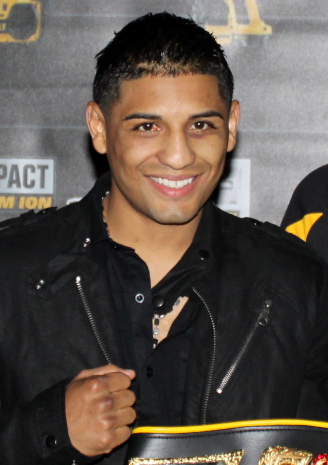 Abner Mares at the Fight Night Club event.